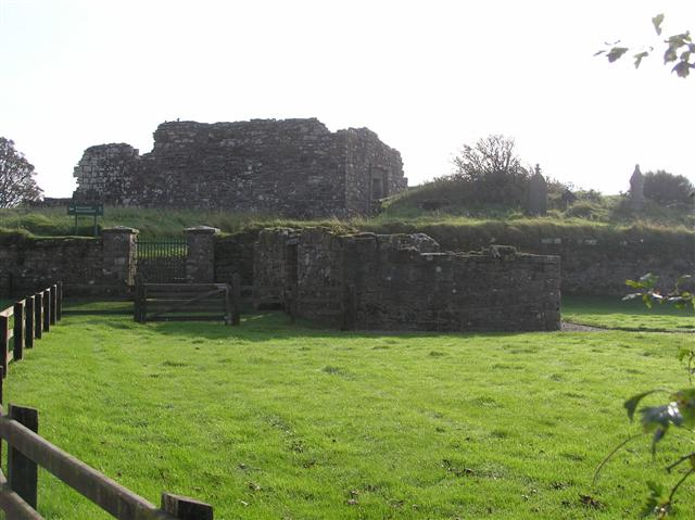 Banagher Old Church An ancient site